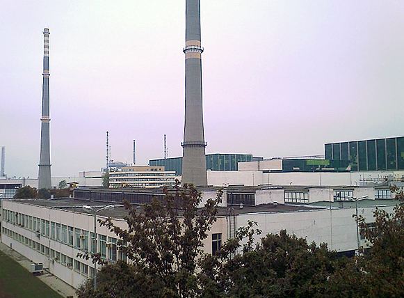 Kozloduy Nuclear Power Plant, Blocks 1-4